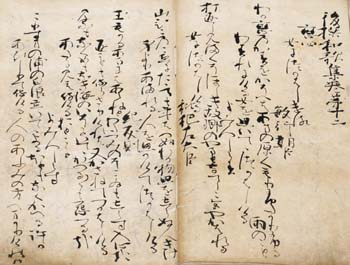 Later Collection (後撰和歌集 Gosen Wakashū). 1,425 poems, primarily those that were rejected for inclusion in the Kokin Wakashū. Part of one bound book. Located at Reizei-ke Shiguretei Bunko (冷泉家時雨亭文庫), Kyoto.